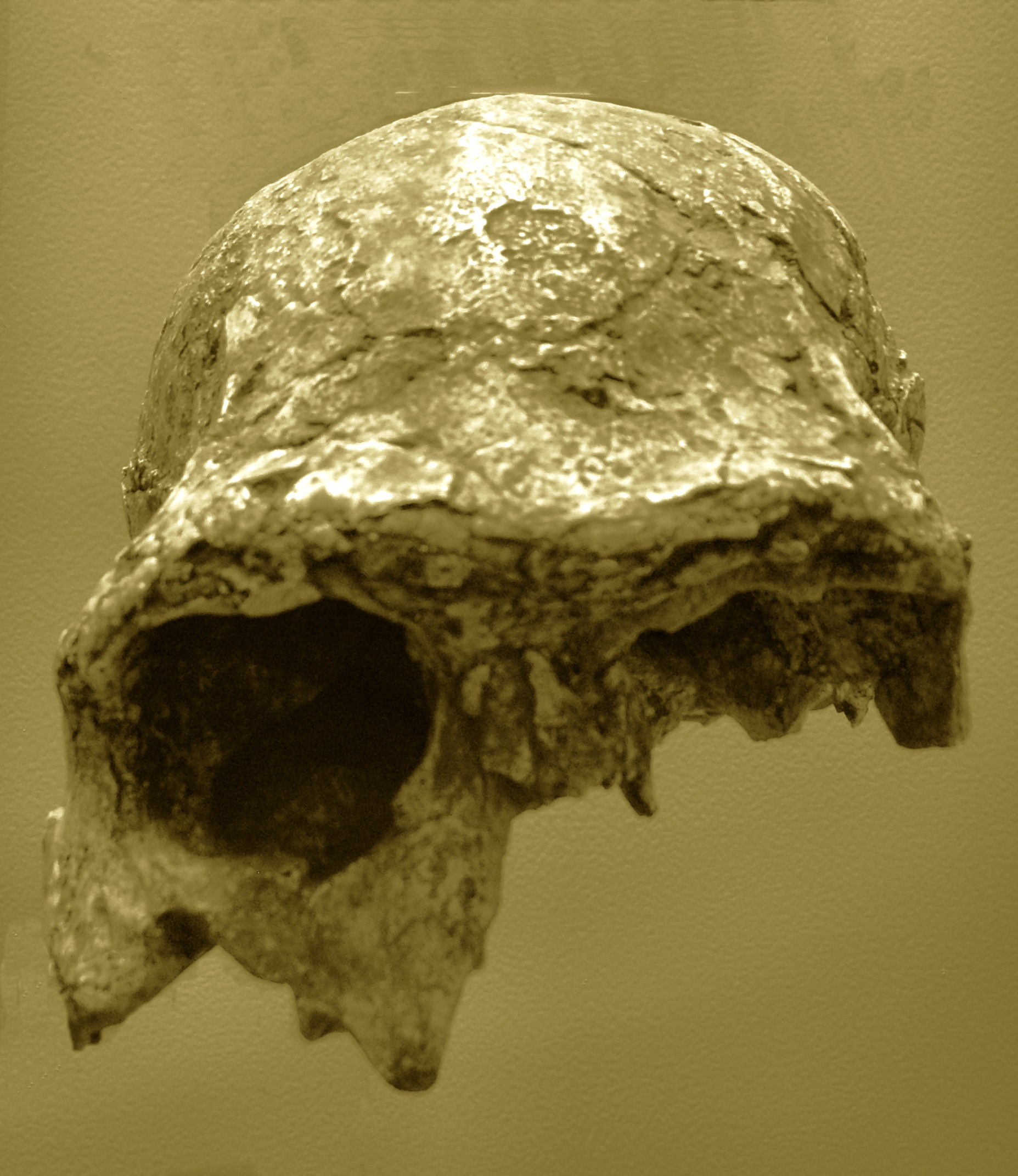 Homo erectus KNM-ER 3883 (replica, Senckenberg Museum, Frankfurt am Main, Germany)